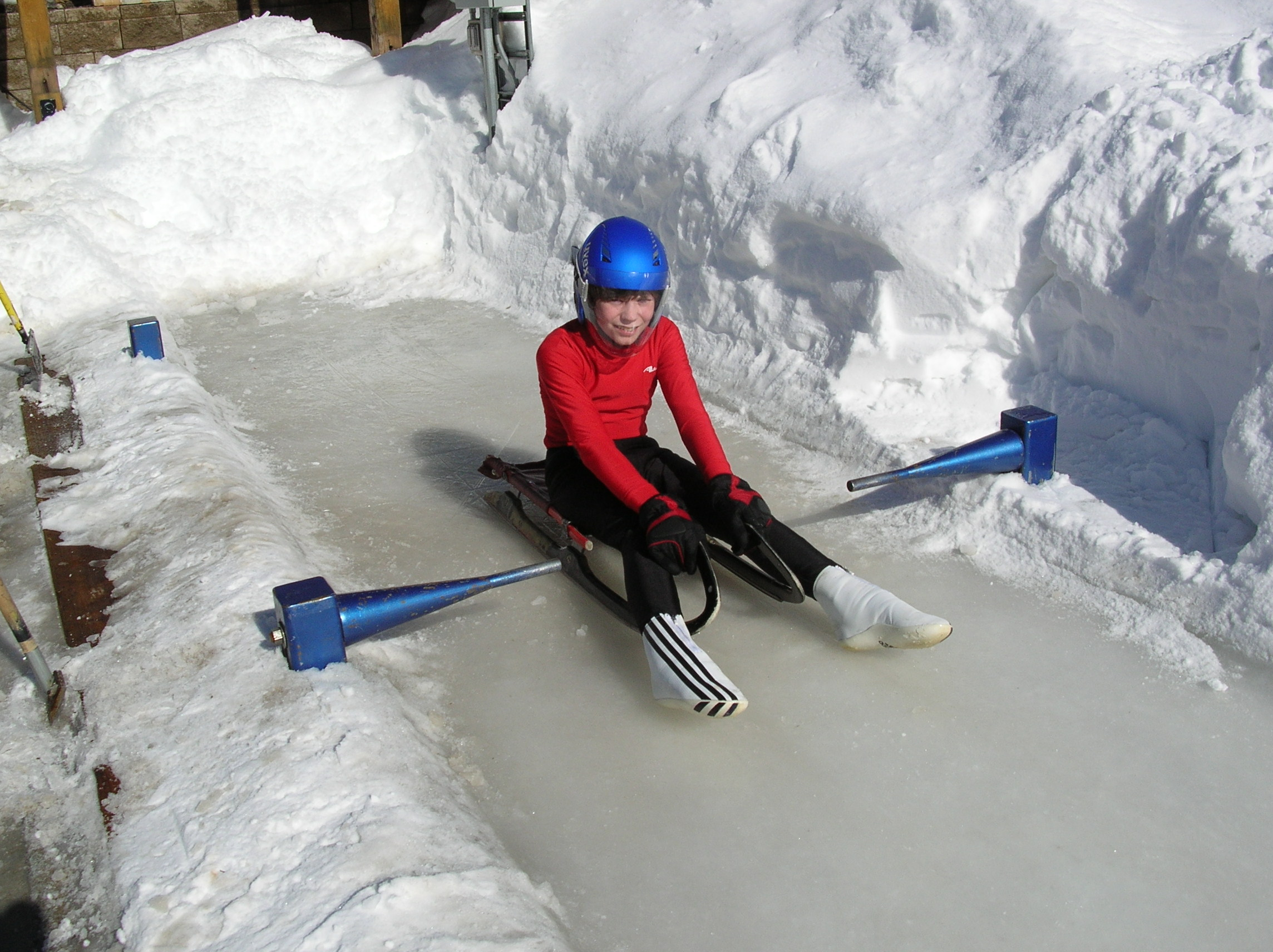 Young luger preparing to start